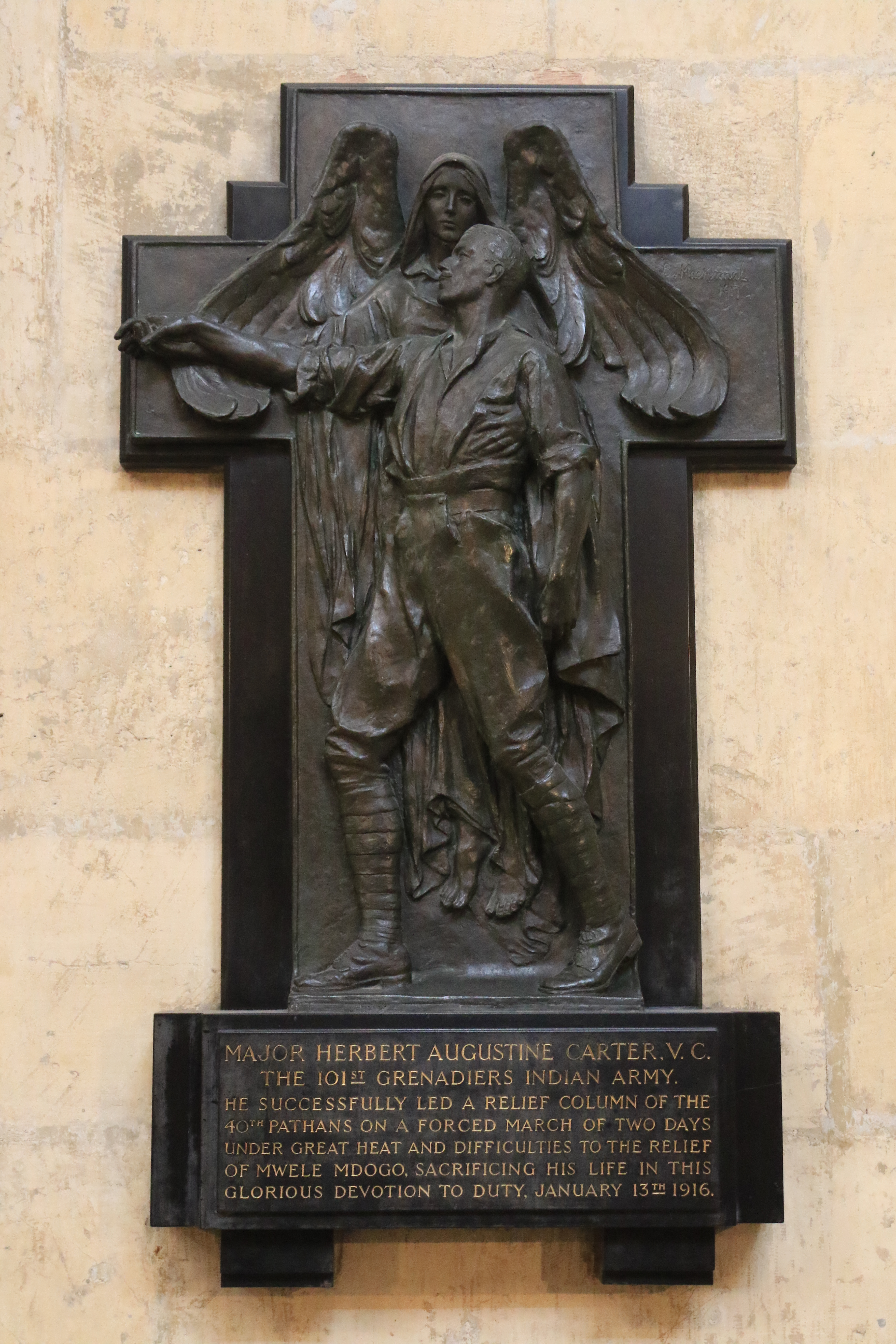 Major Herbert Augustine Carter VC, The 101st Grenadiers Indian Army. He successfully led a relief column of the 40th Pathans on a forced march of two days under great heat and difficulties to the relief of Mwele Mdogo, sacrificing his life in this glorious devotion to duty, January 13th 1916.